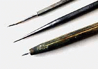 Dry point (needles) - printmaking